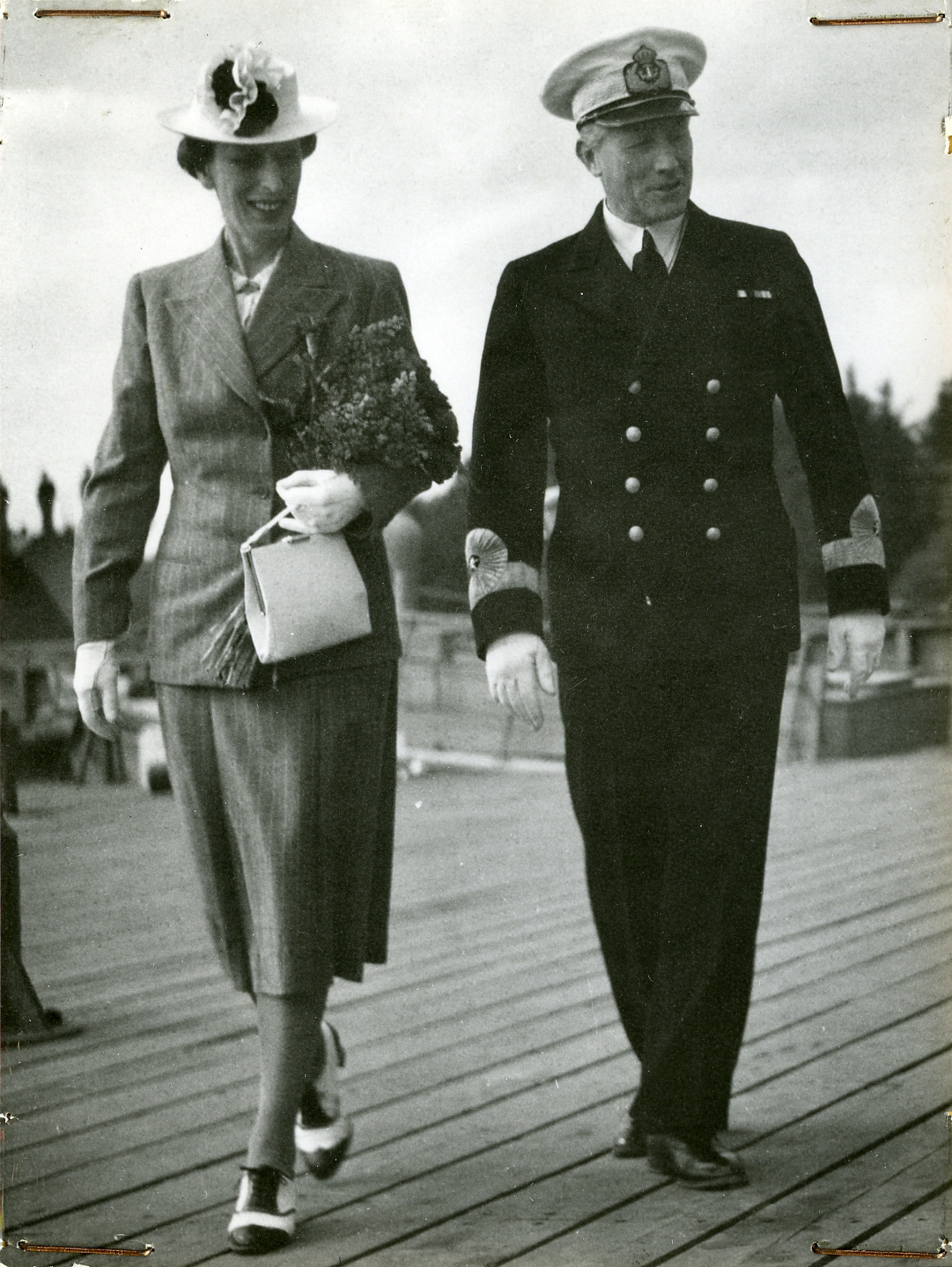 Crown Princess Louise Mountbatten visits the Swedish Coastal Fleet (Kustflottan) and Admiral Yngve Ekstrand.